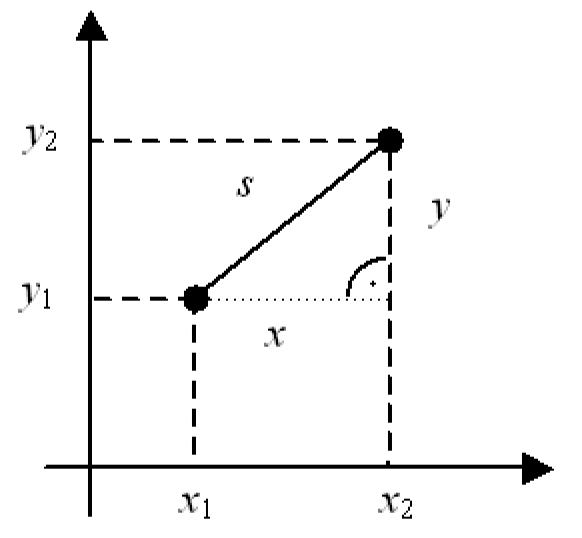 for calculation of distance in spacetime